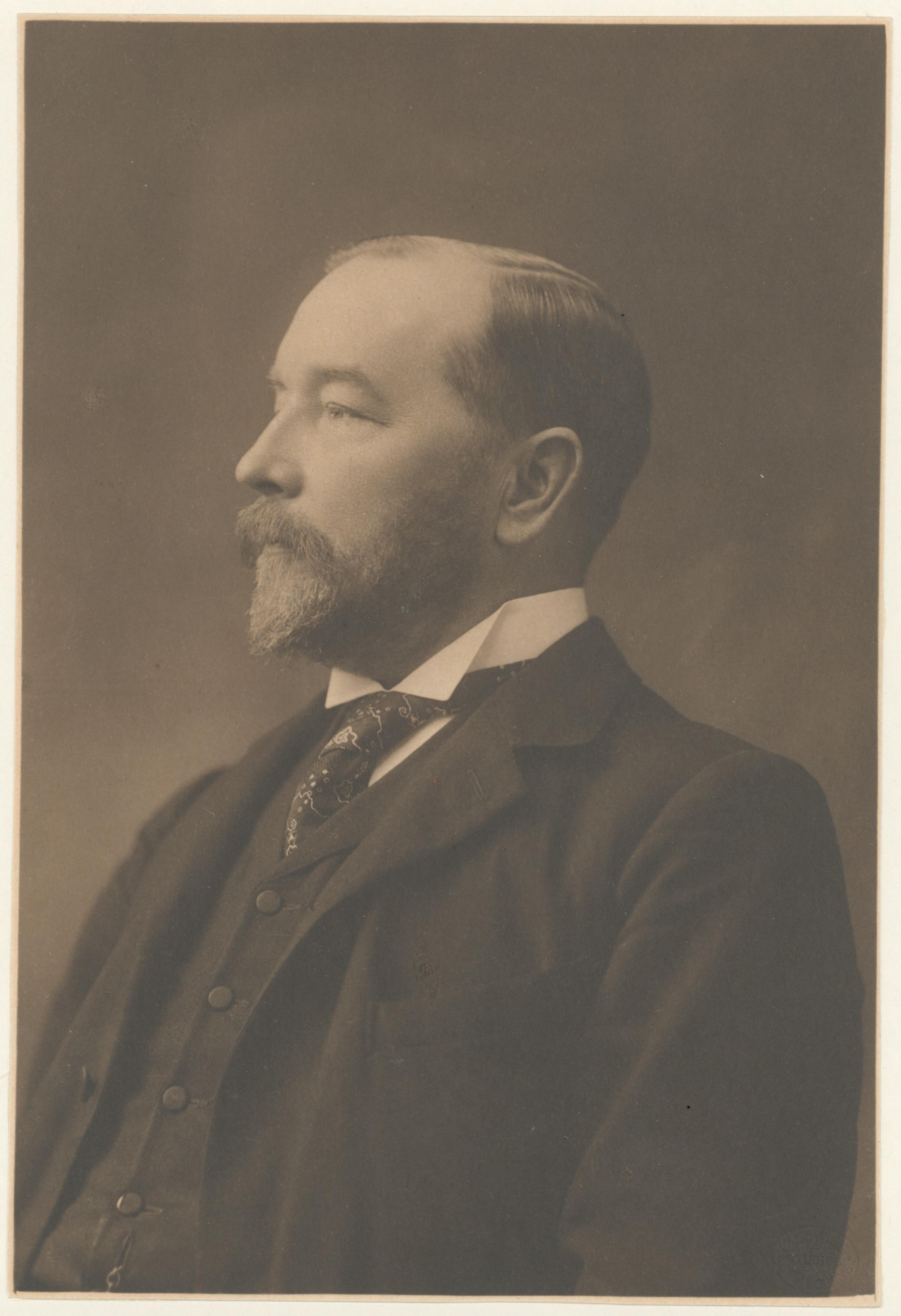 Australian politician Dugald Thomson